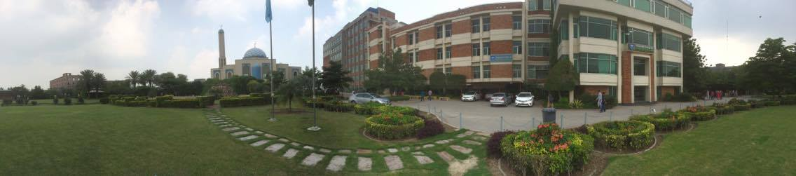 The panorama shot of University of Lahore from its northern garden.